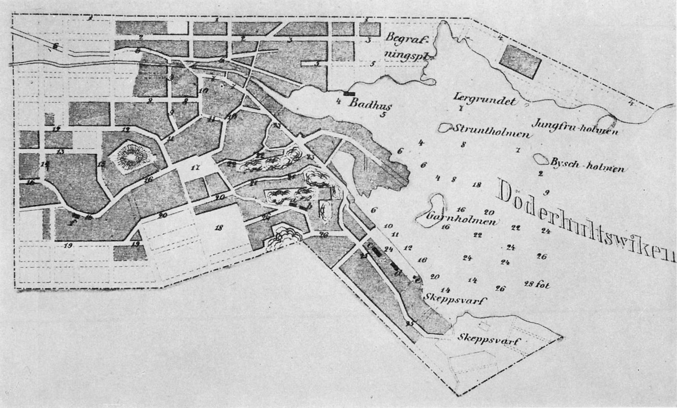 Map of Oskarshamn 1858.